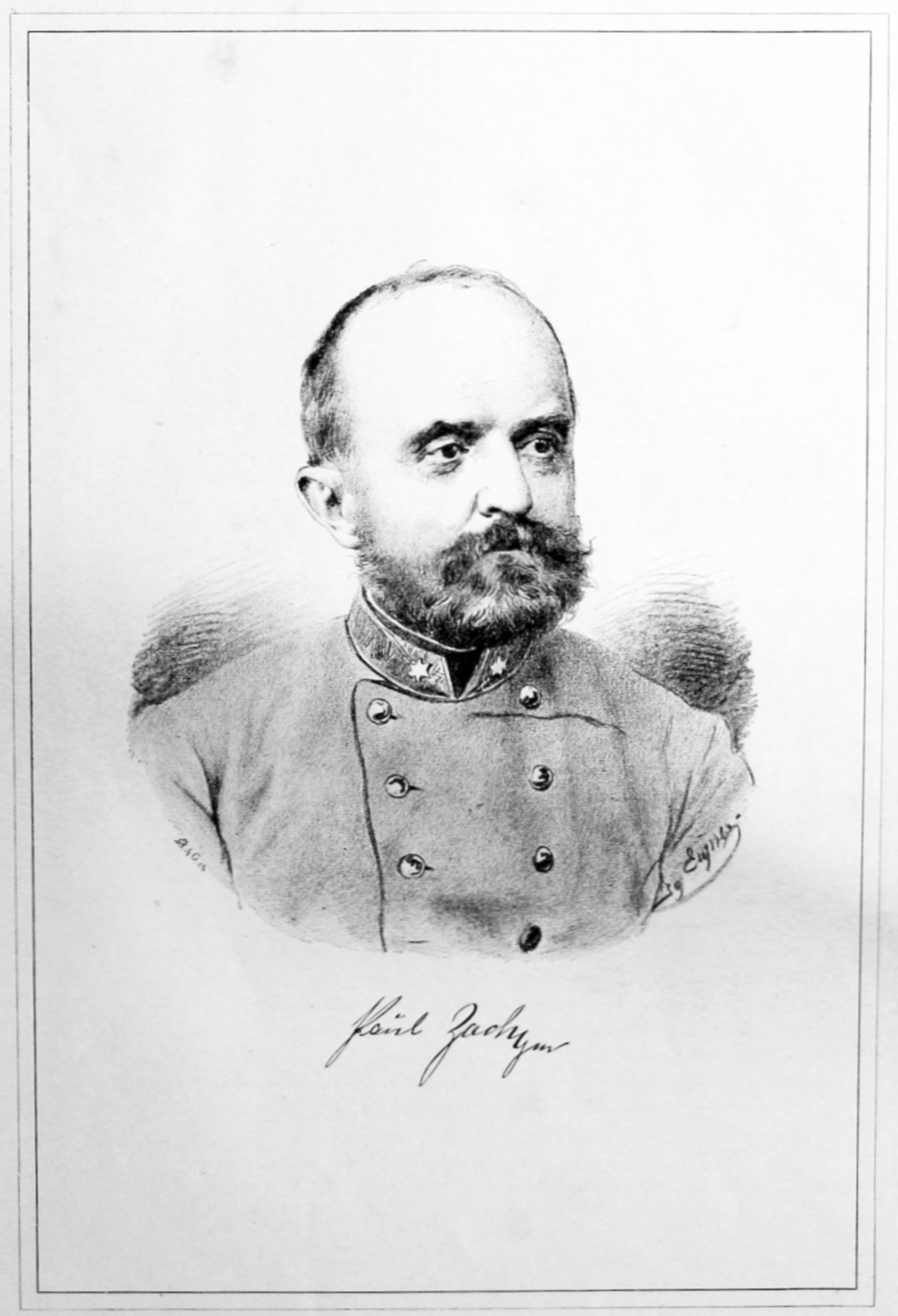 Fieldmarshal-Lieutenant (Austria)